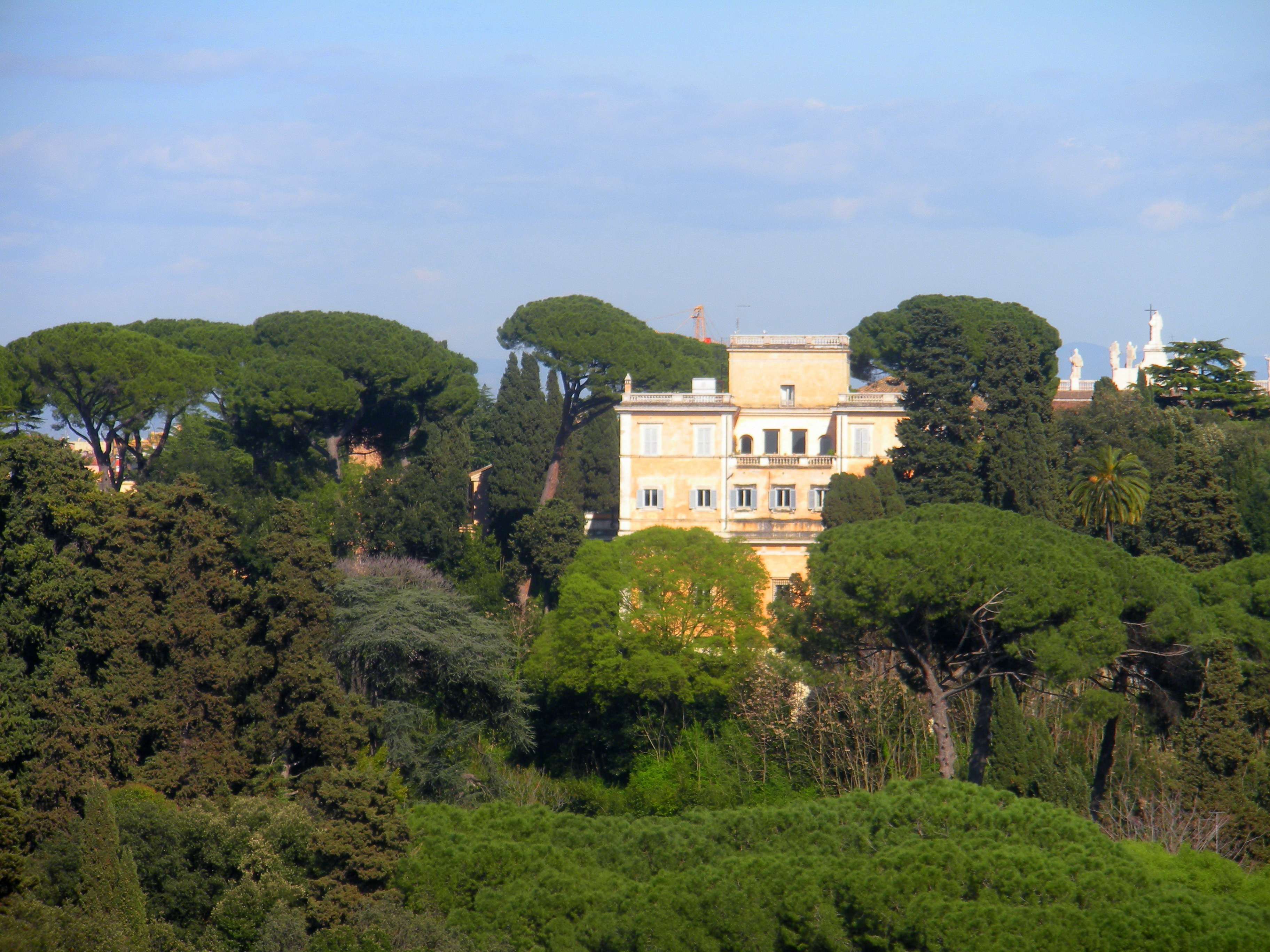 Villa Celimonta, Rome. Statues of the Basilica of San Giovanni in the background